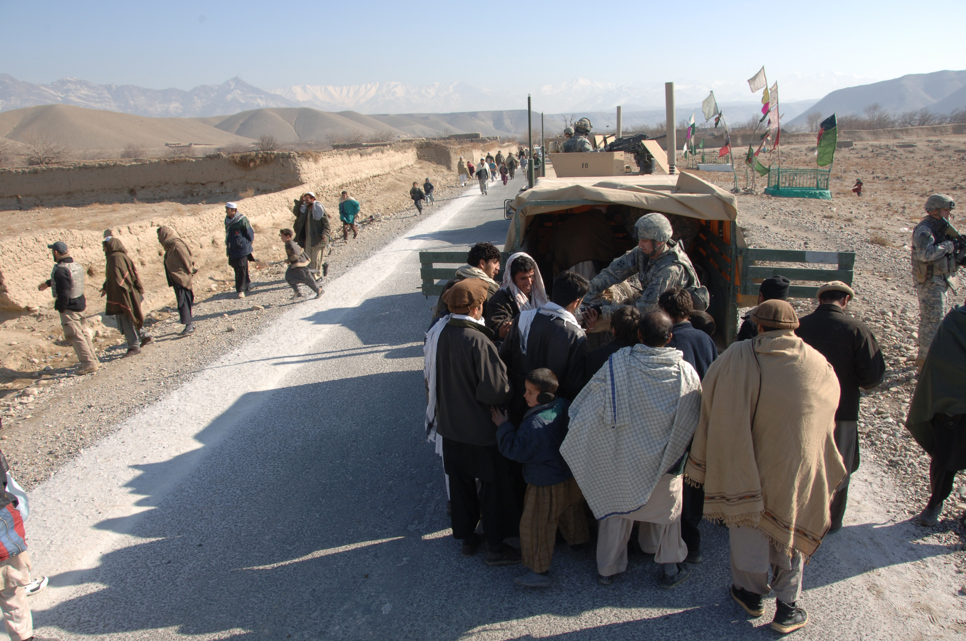 Local villagers receive humanitarian aid from the Bagram Provincial Reconstruction Team in the village of Nijrab in the Kapisa Province of Afghanistan Jan. 14, 2008. (U.S. Army photo by Staff Sgt. Tyffani L. Davis) (